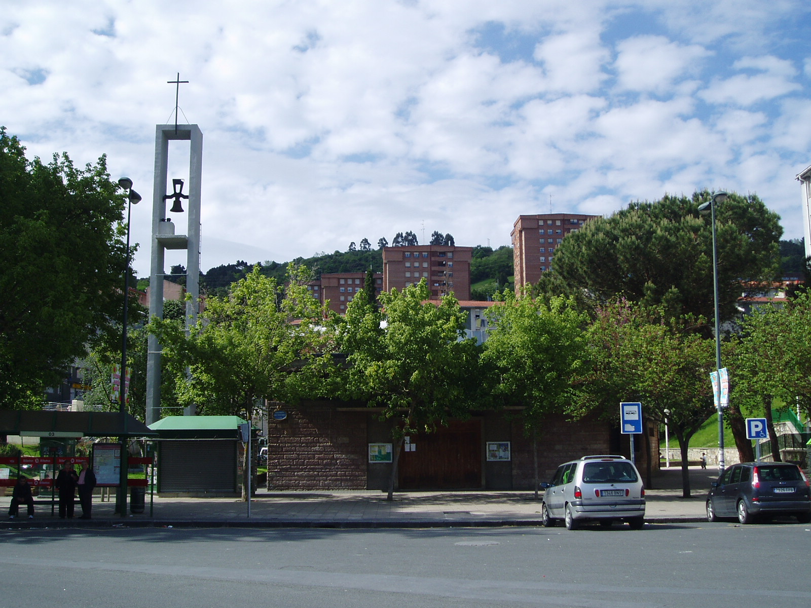 Kepa Enbeita (a.k.a. "Urretxindorra") square in Otxarkoaga district (Bilbao).